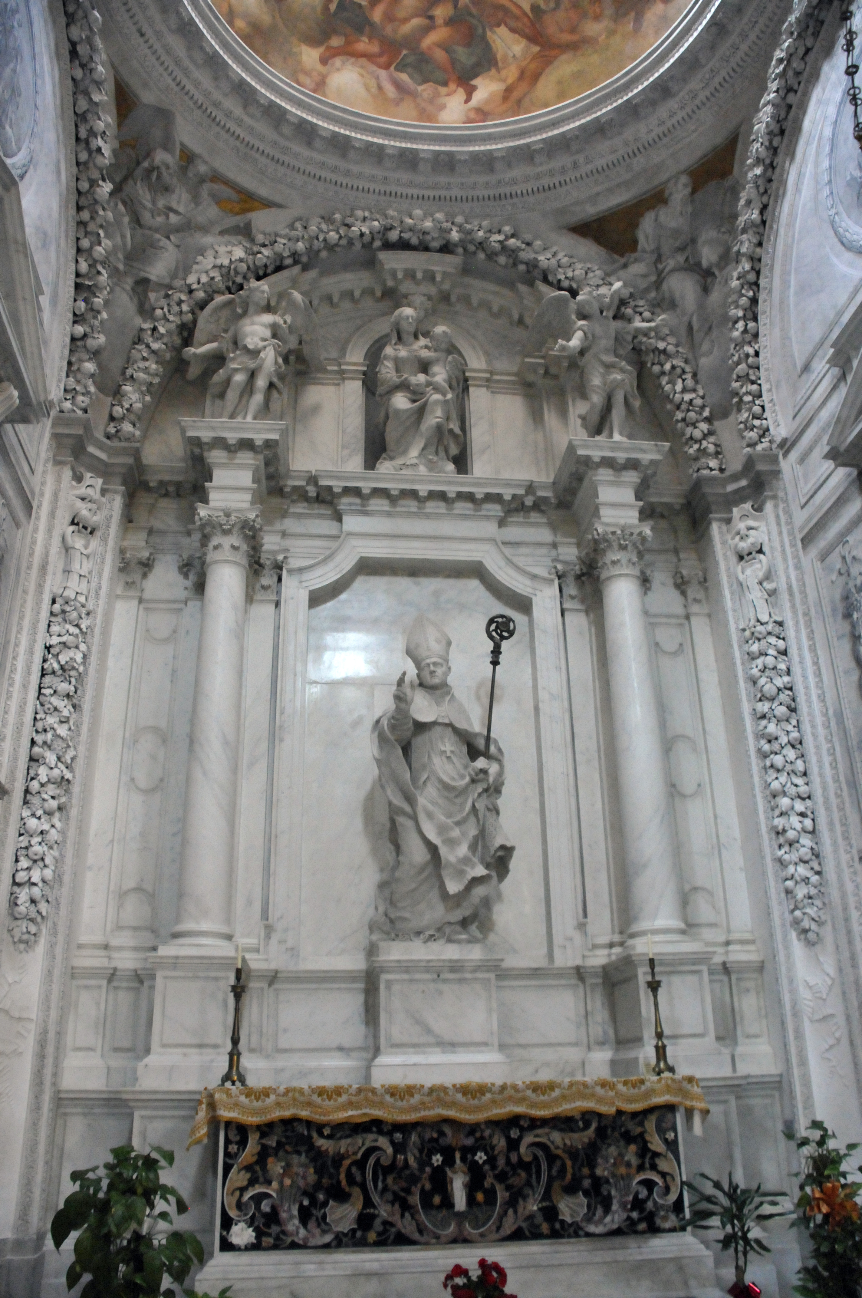 Cappella Sagredo in San Francesco della Vigna in Venice